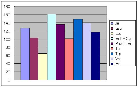 Amino Acid of Barley